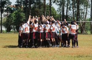 Flag team